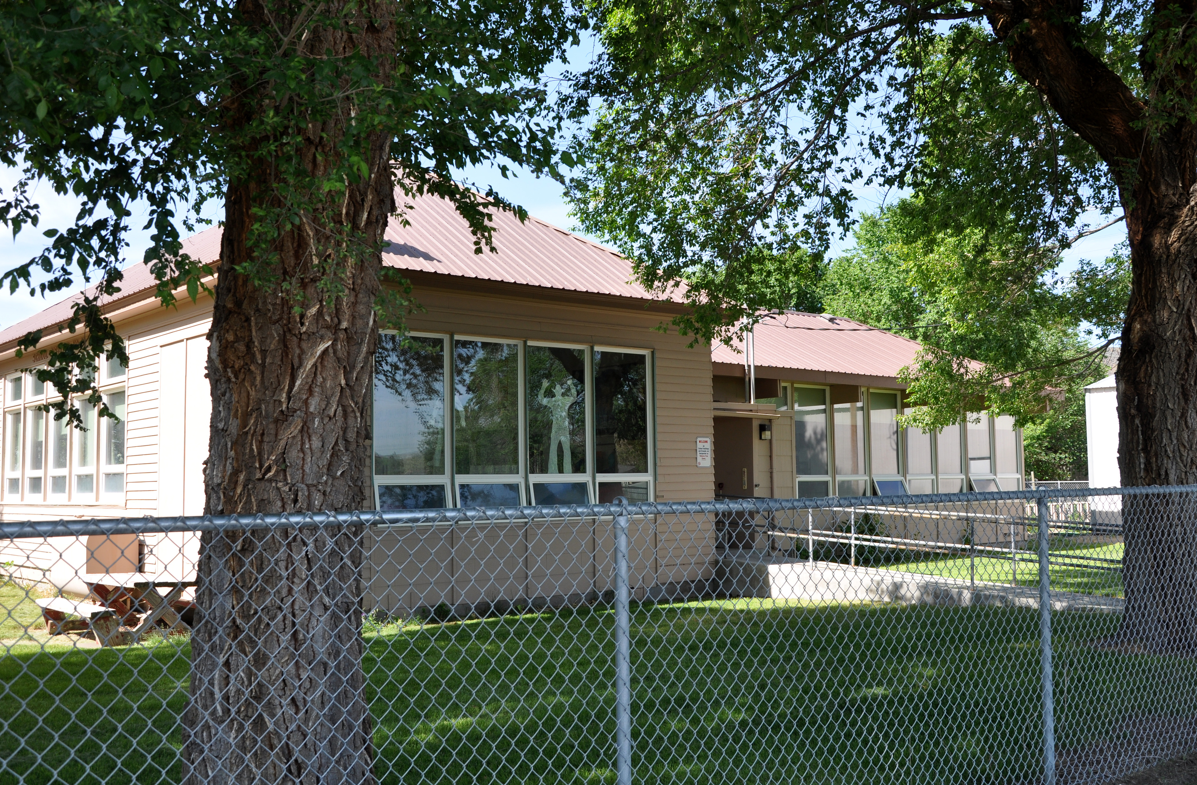 Plush School, grades K through 3, in Plush in the U.S. state of Oregon